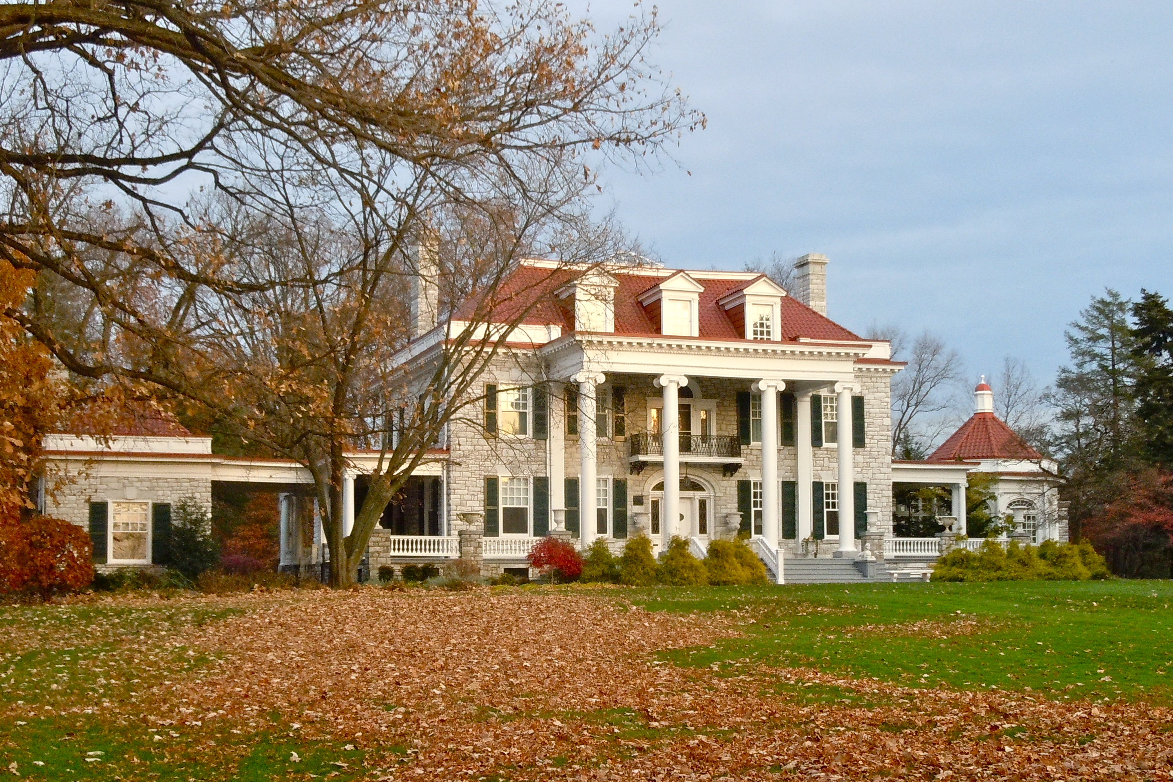 High Point, the Milton S. Hershey Mansion, on Mansion Road, overlooking the Hershey chocolate factory, in Hershey, Dauphin County, Pennsylvania. A National Historic Landmark, and on the NRHP since February 7, 1978.